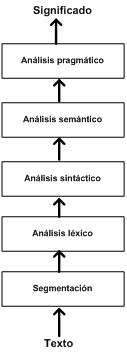 It describes in Spanish, the stages in which NLP is divided.